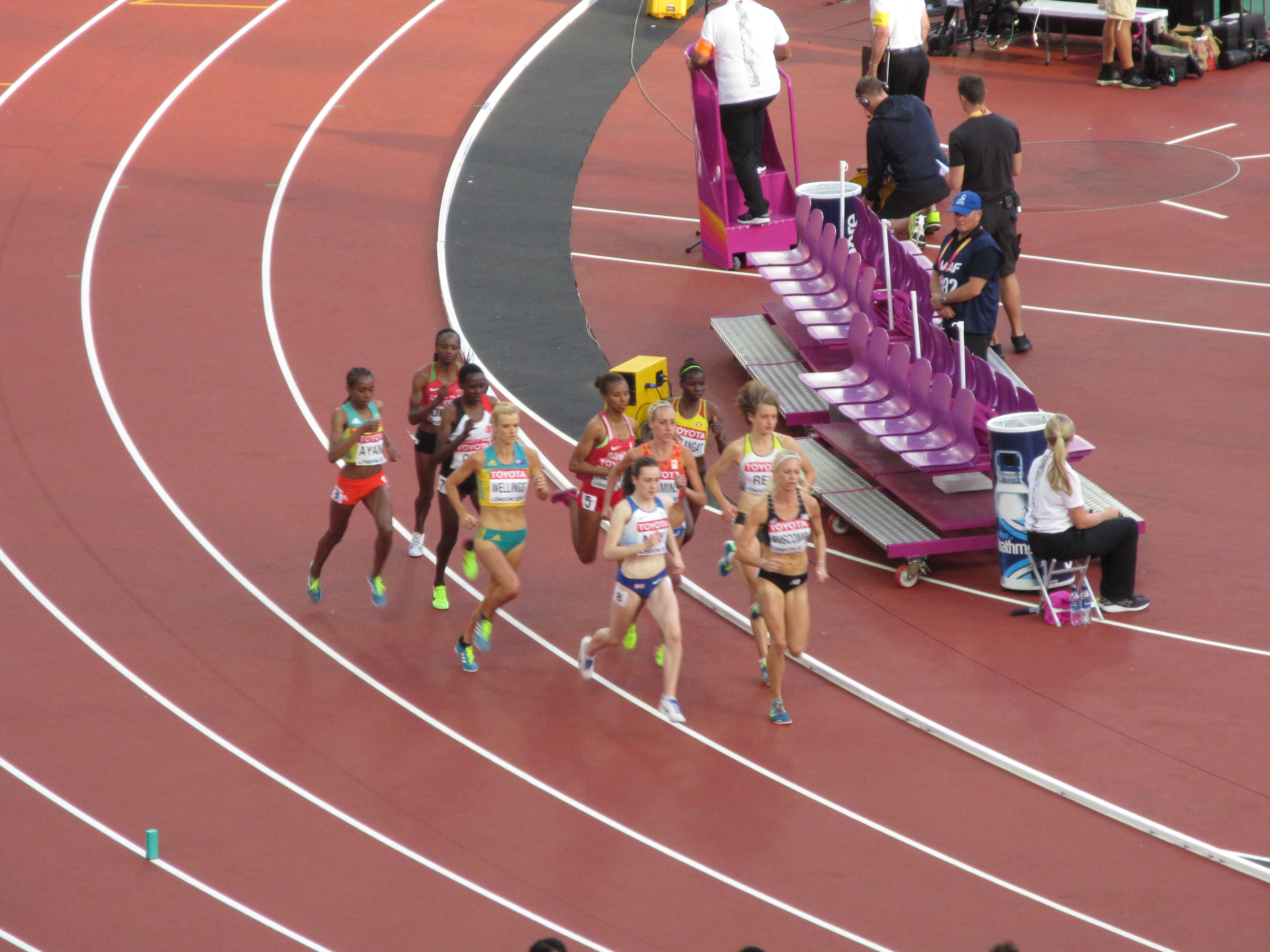 Laura Muir in 2nd place at this point